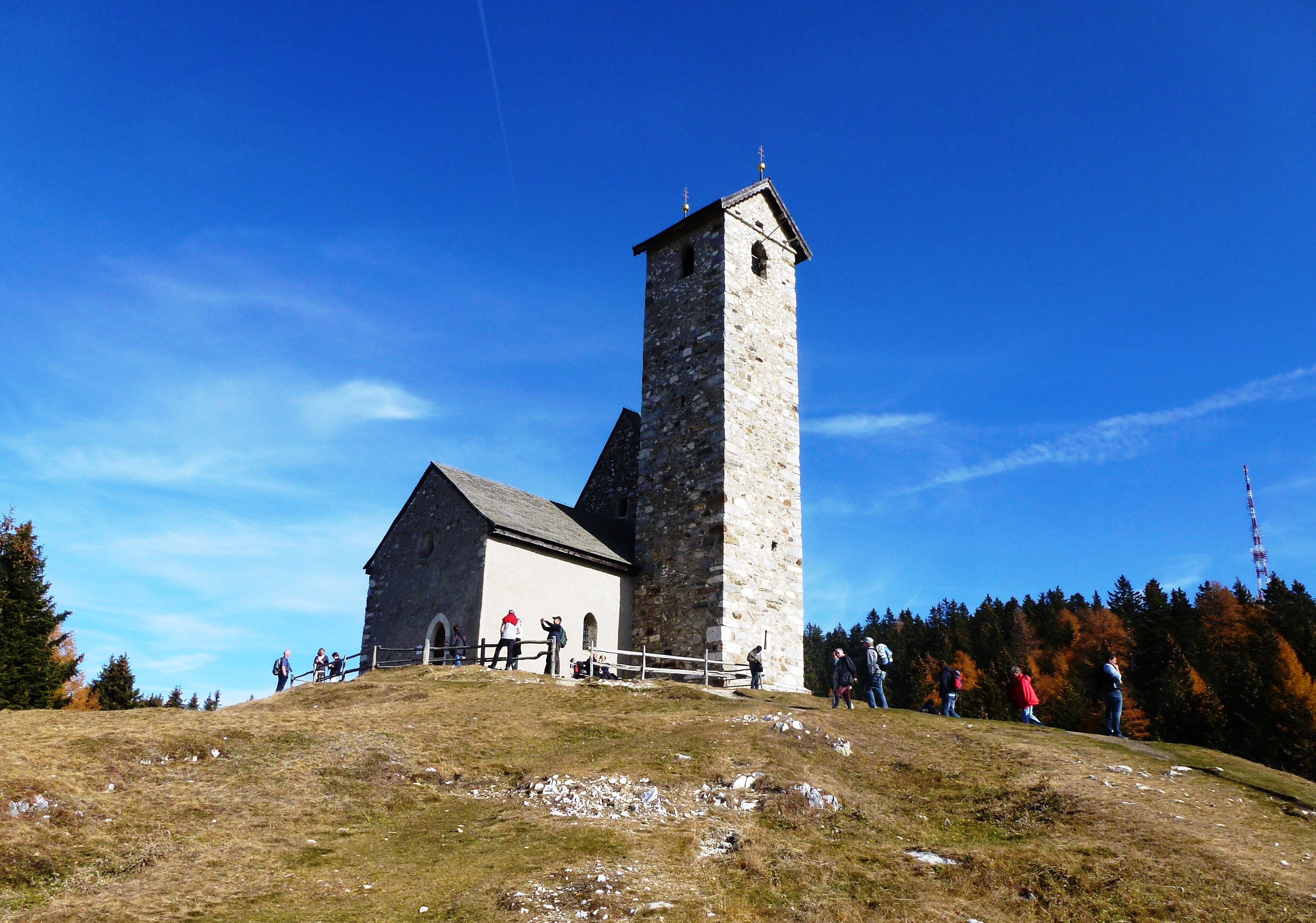 Church/Chapel St. Vigil am Vigiljoch in South Tyrol